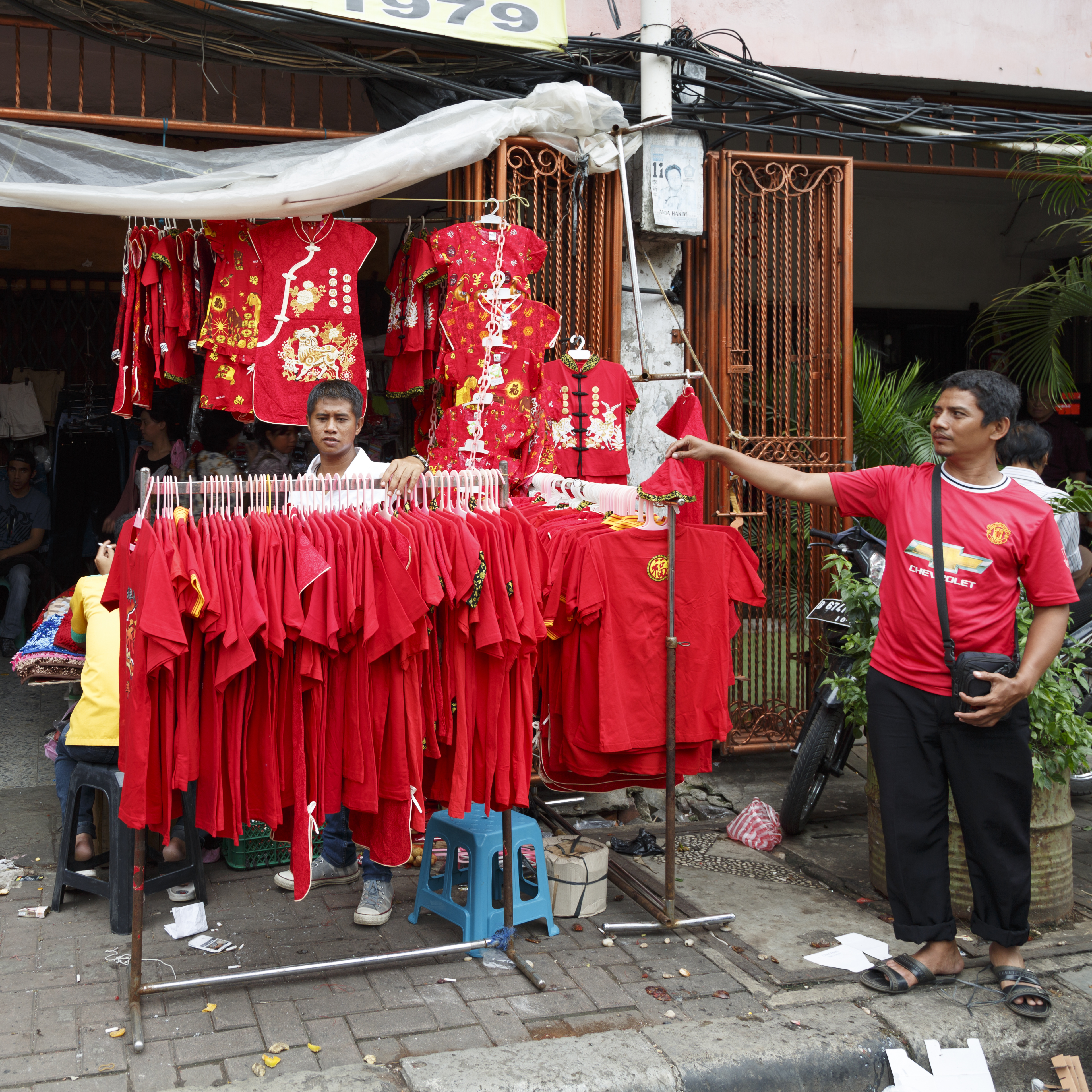 Jakarta, Indonesia: A man selling red t-shirts for Chinese New Year celebrations in Chinatown Jakarta, Glodok quarter.